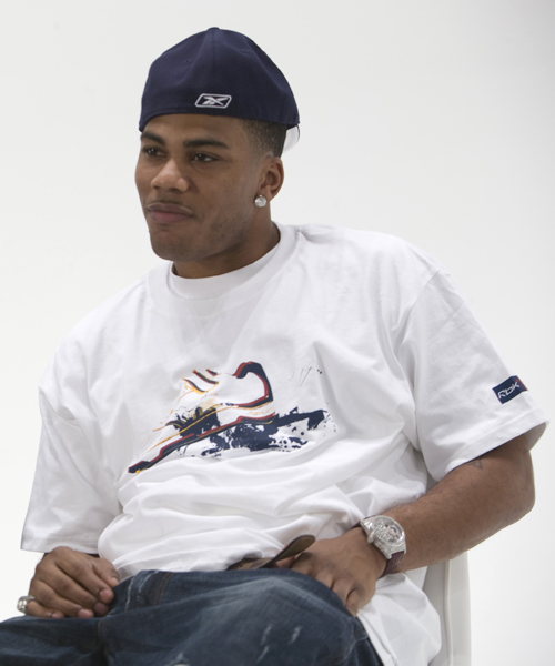 Allen Iverson and Nelly.